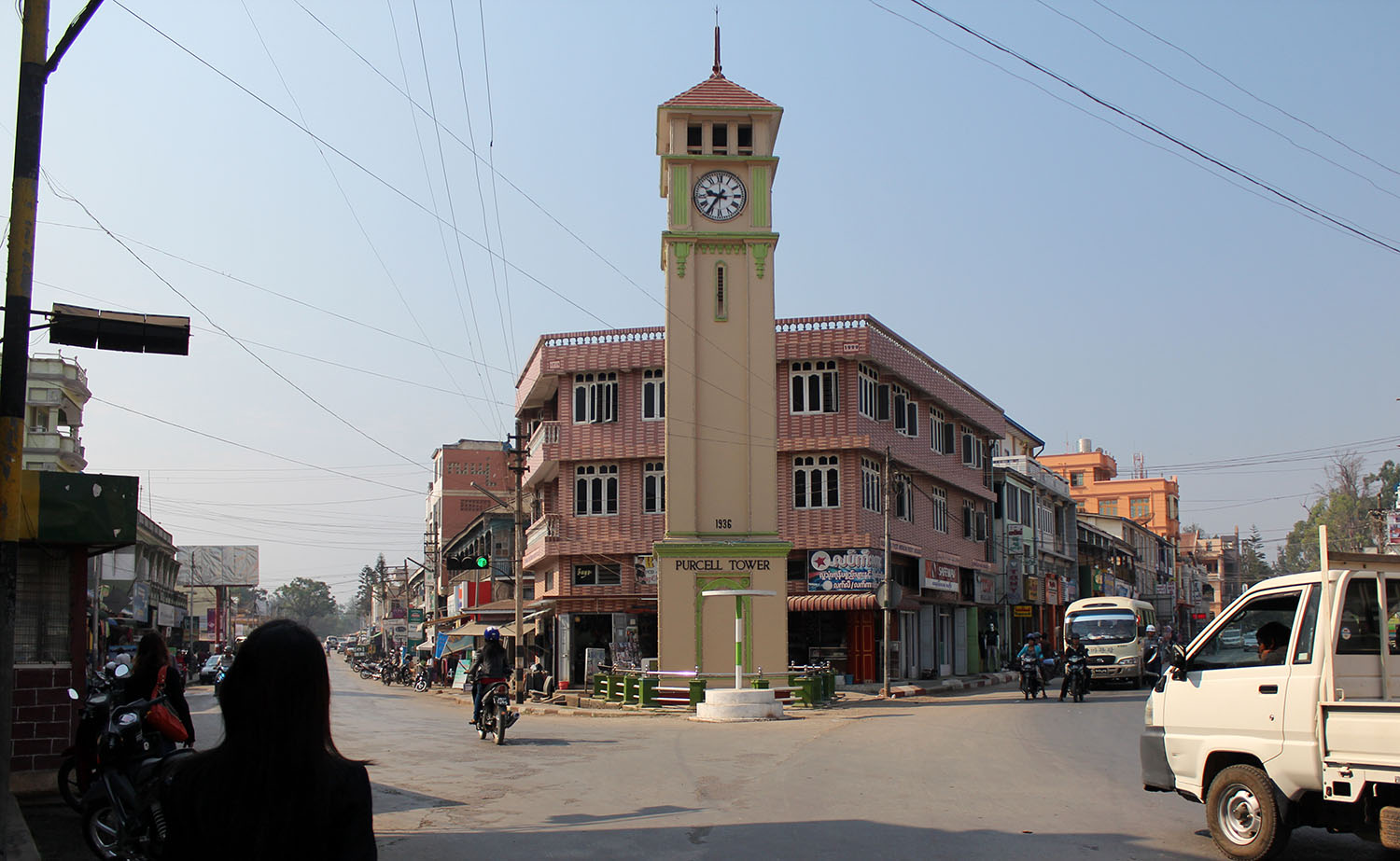 Maymyo (Pyin Oo Lwin)'s clock towerမြန်မာဘာသာ: မေမြို့ နာရီစင်